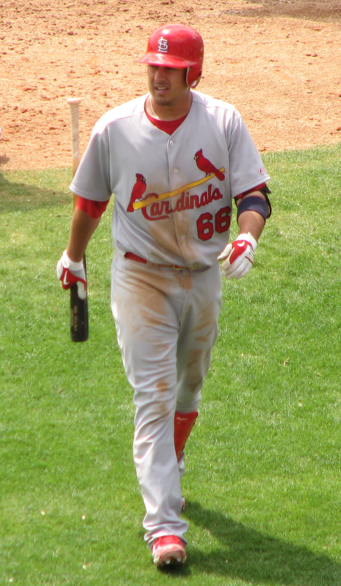 Picture of Allen Craig